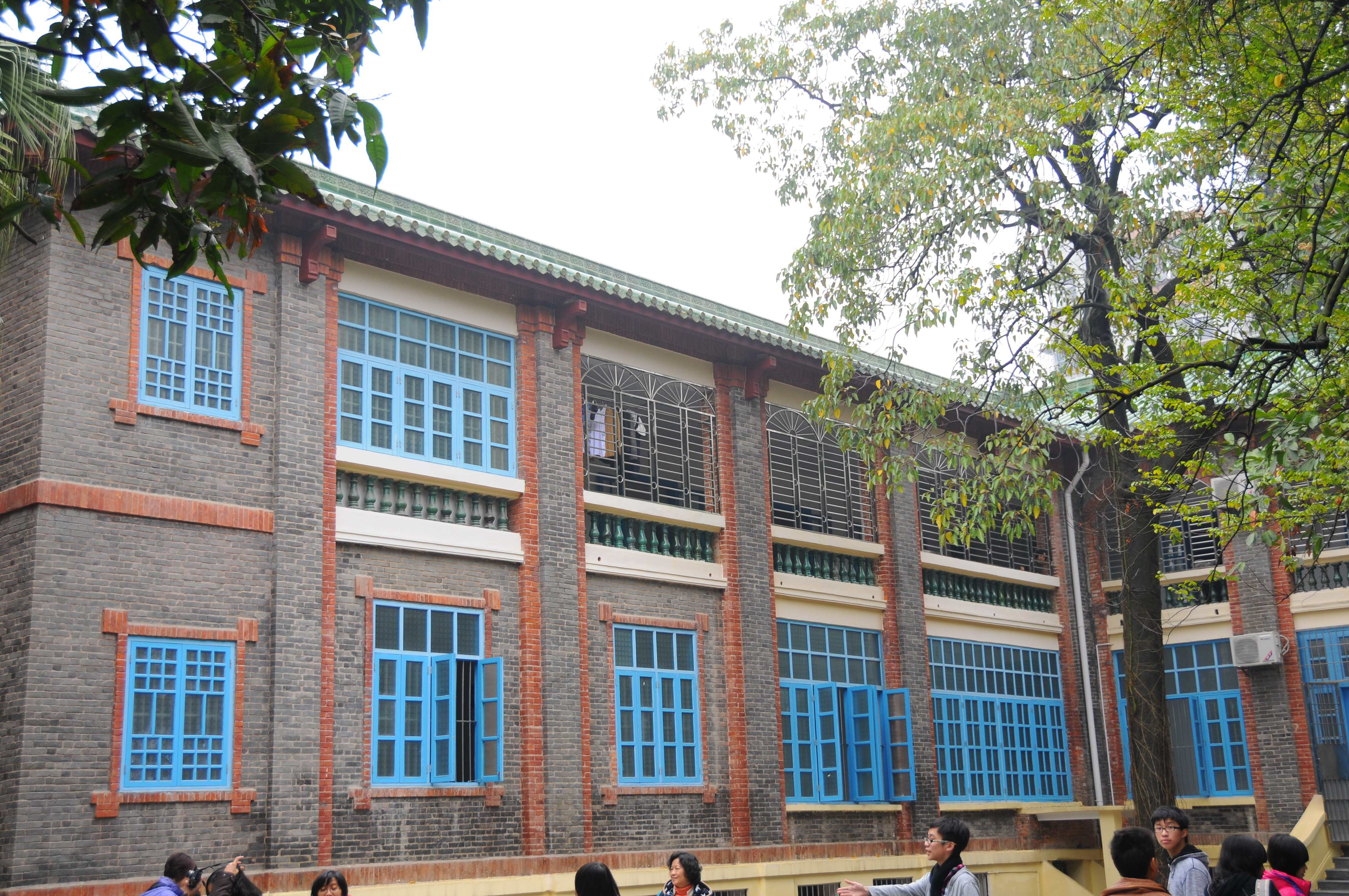 A front view of the Sacred Heart of Mary Cathedral in Jiangmen